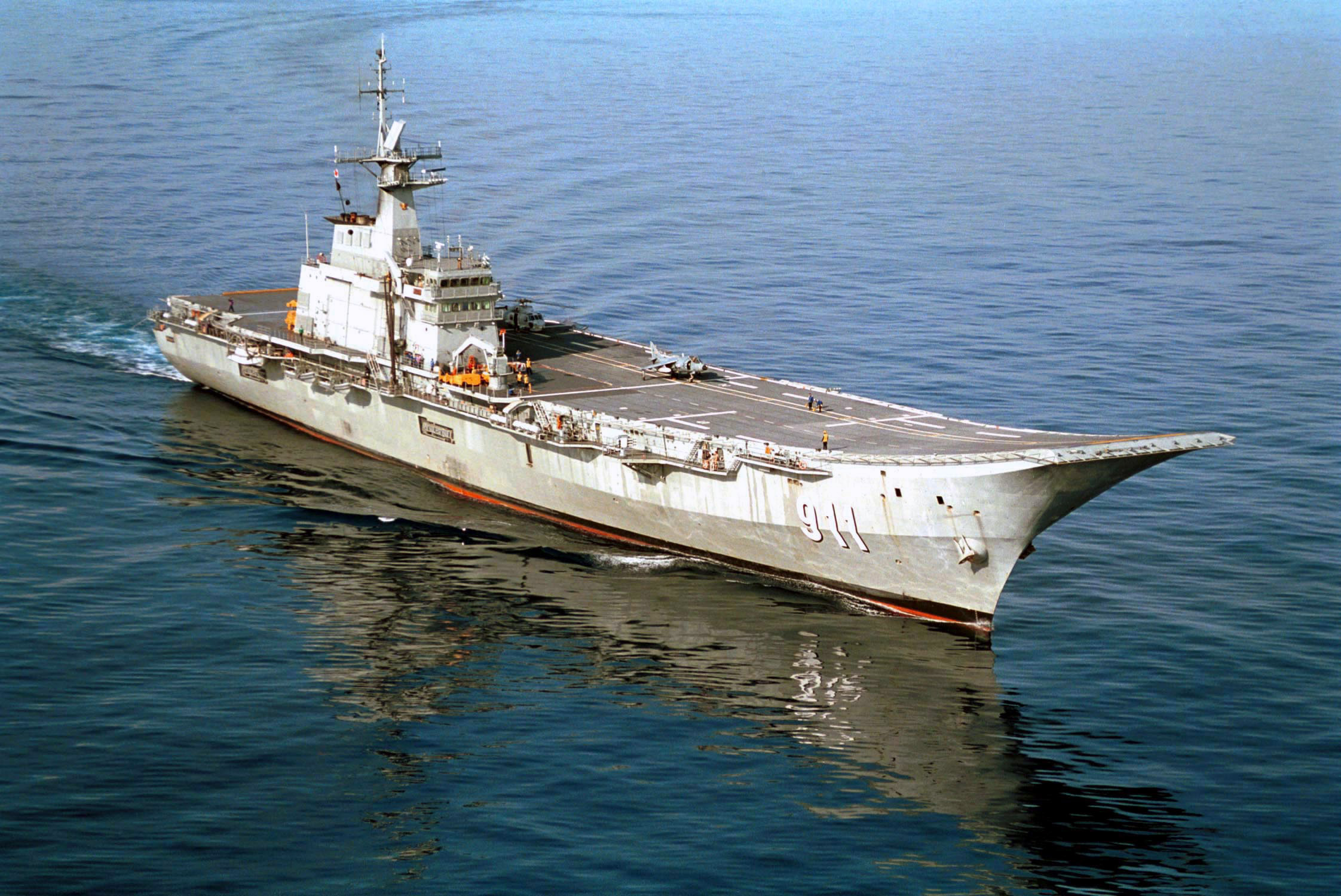 The Royal Thai Naval vessel HTMS CHAKRINARUEBET (CVH 911) in the South China Sea.